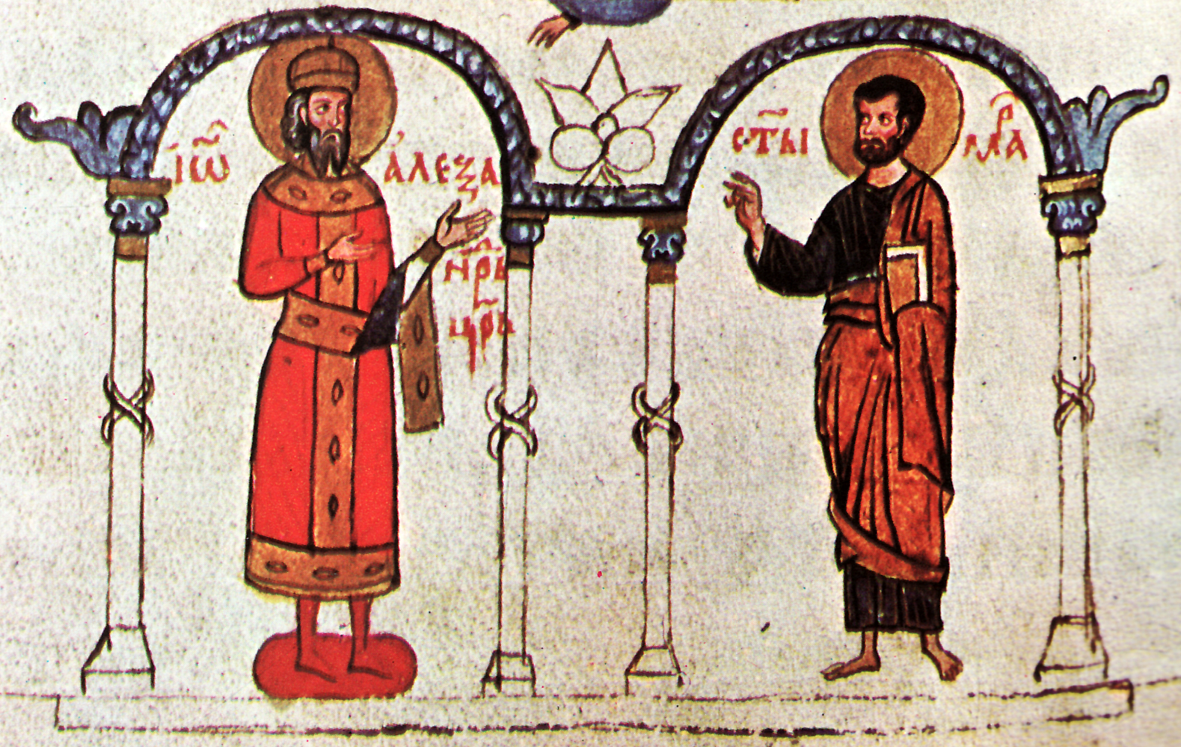 Miniature from Tetraevangelia of Ivan Alexander, detail.